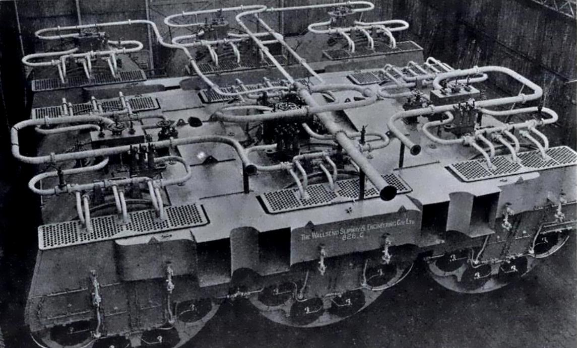 Photograph captioned 'Boiler installation and steam-pipe arrangement, S. S. "Laconia"', by the inscription on the front of the boiler "The Wallsend Slipway & Engineering Co Ltd" this may be the second RMS Laconia of the Cunard Line.